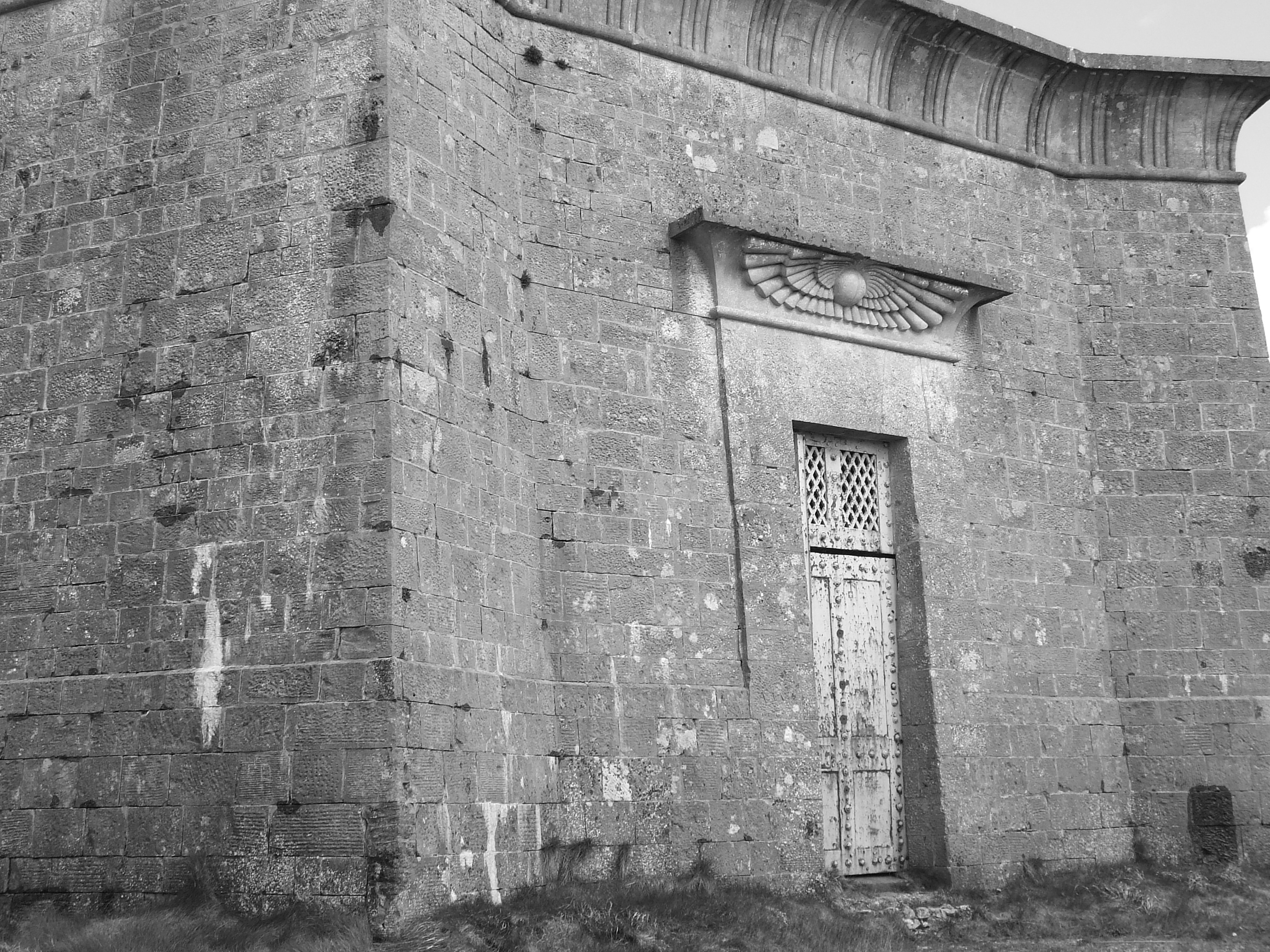 The entrance to Wellington Monument. A little run down and fenced off at the moment undergoing renovations. Thought I'd catch it whilst it was still shabby!